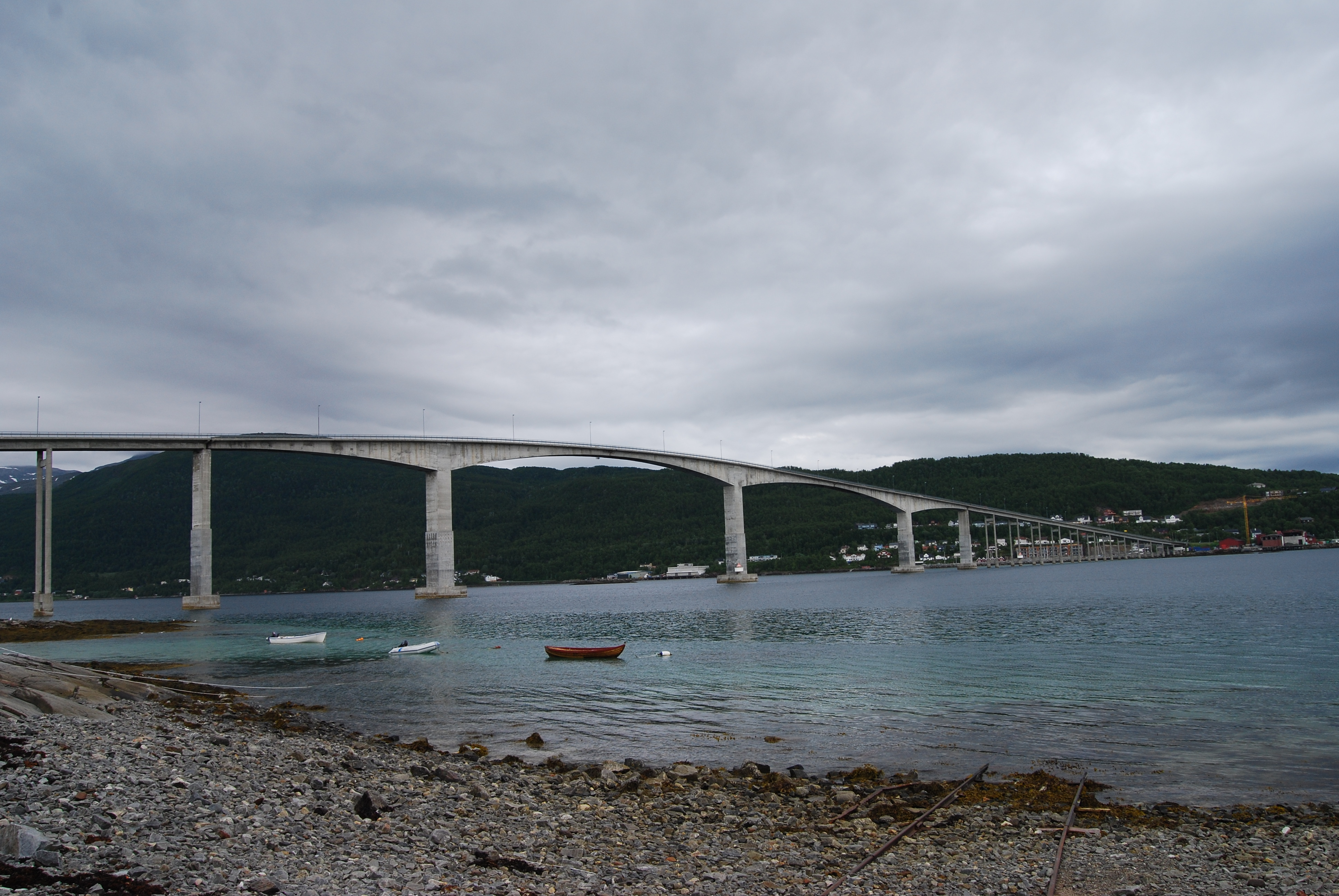 Gisundbrua bridge between Senja and Finnsnes, Lenvik, Norway.